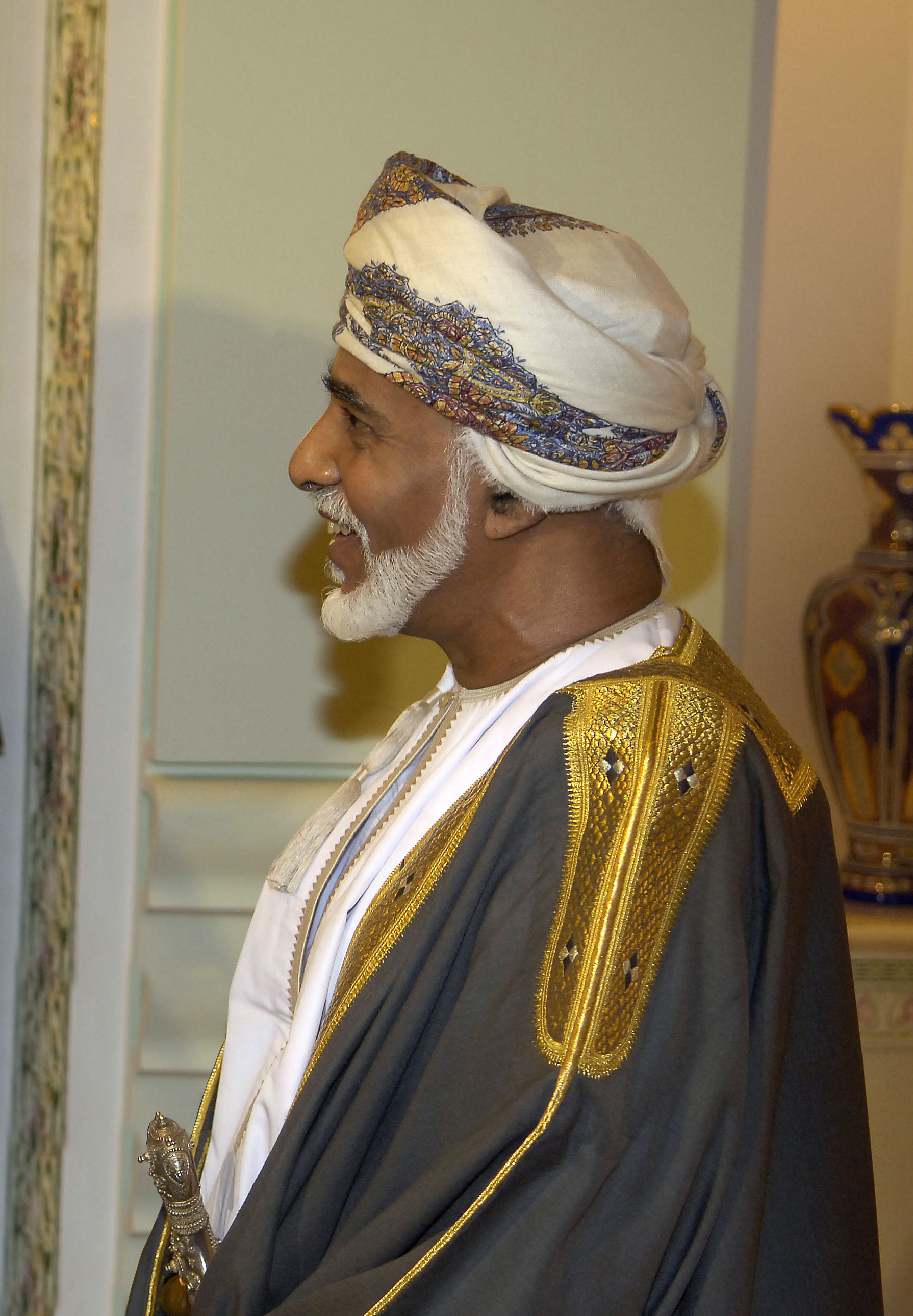 Omani Sultan Qaboos bin Sa'id welcomes U.S. Defense Secretary Robert M. Gates at the Bait Al-Barakah Palace outside Muscat, Oman, April 5, 2008. Gates was in Muscat to discuss defense issues with top Omani officials.